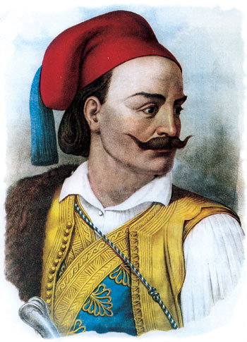 Portrait of the greek politician and general Kitsos Tzavellas